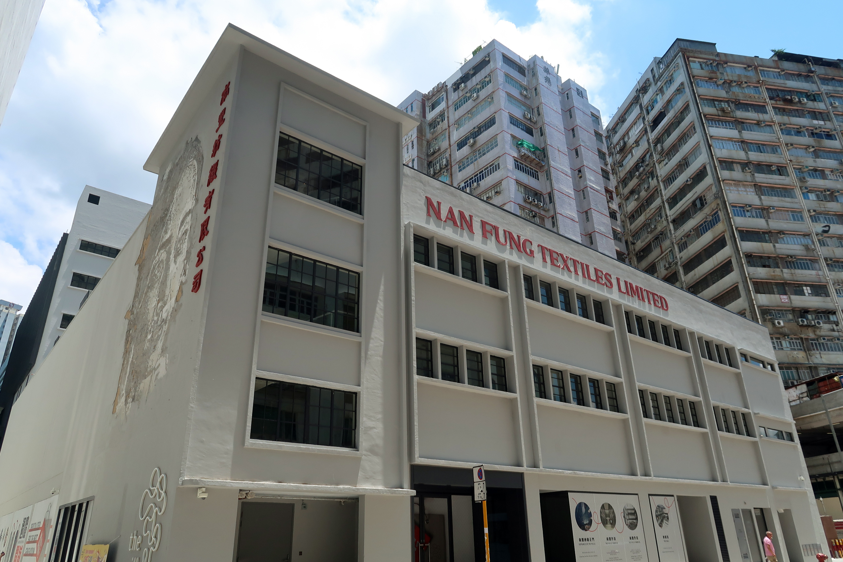 The Mills